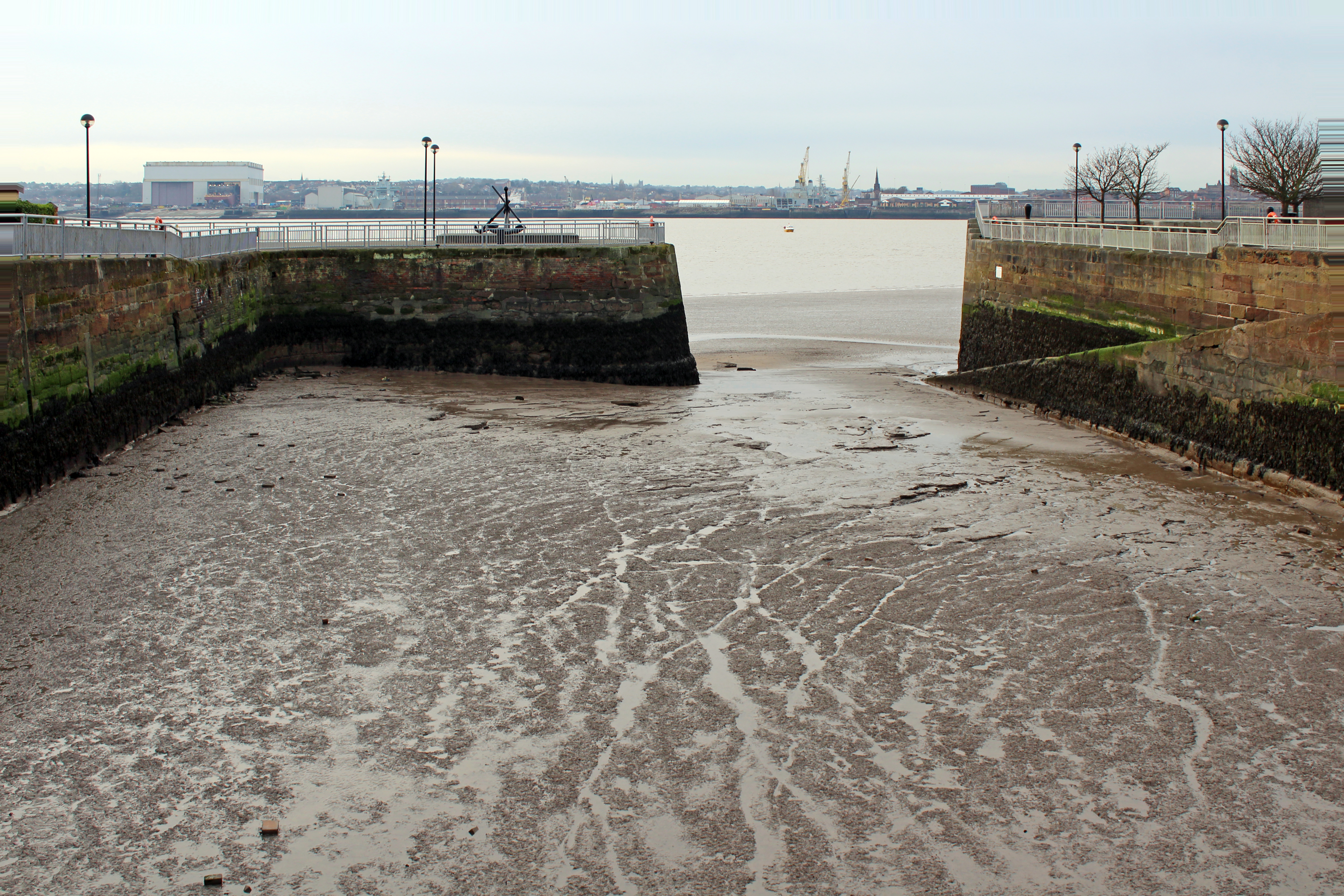 View out to the Mersey from the east wall of the basin